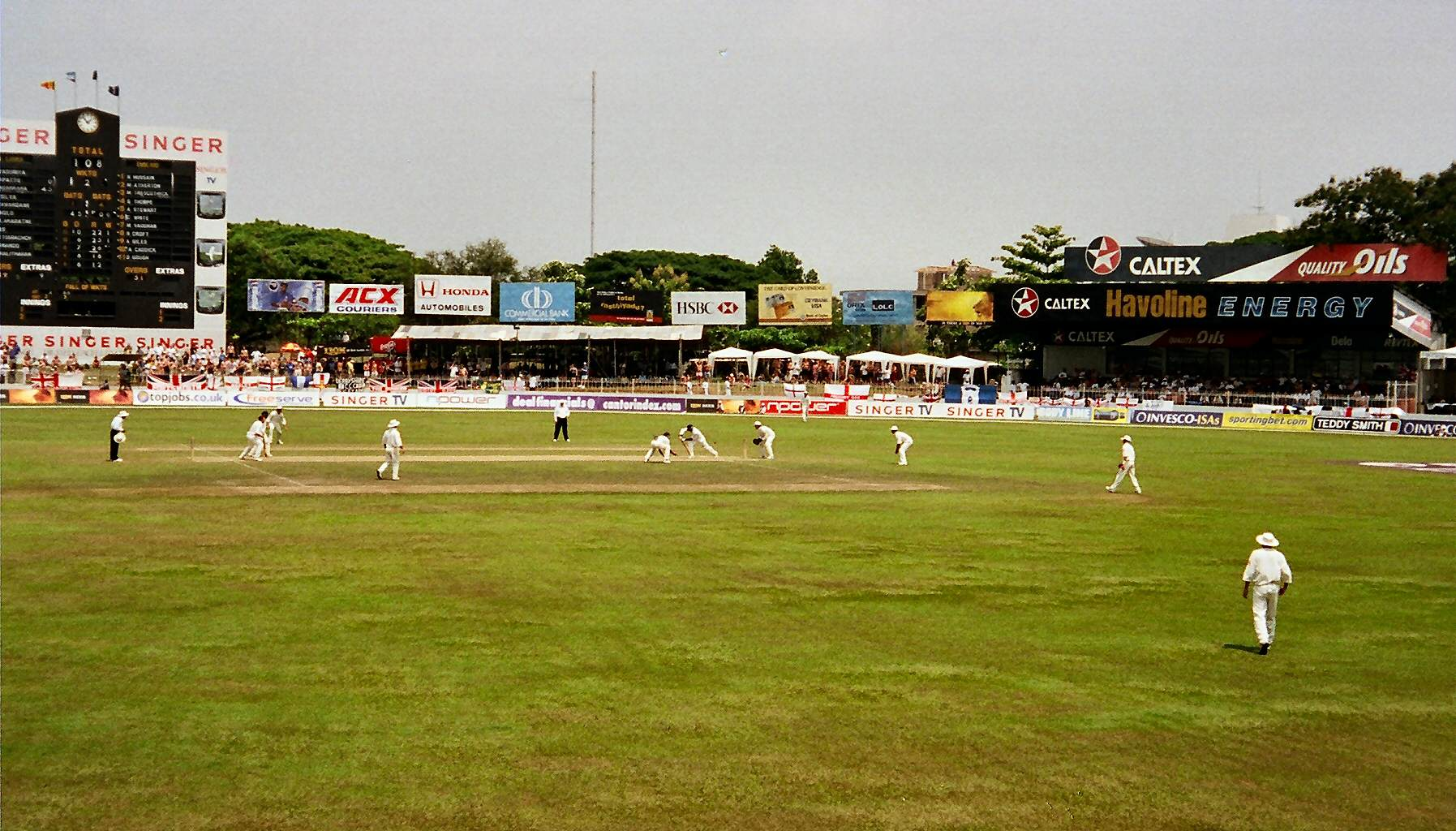 Sinhalese Sports Club Ground Colombo Sri Lanka. Photo is copyright free and was taken by Paddy Briggs during the Sri Lanka v England Test match at the ground in March 2001.